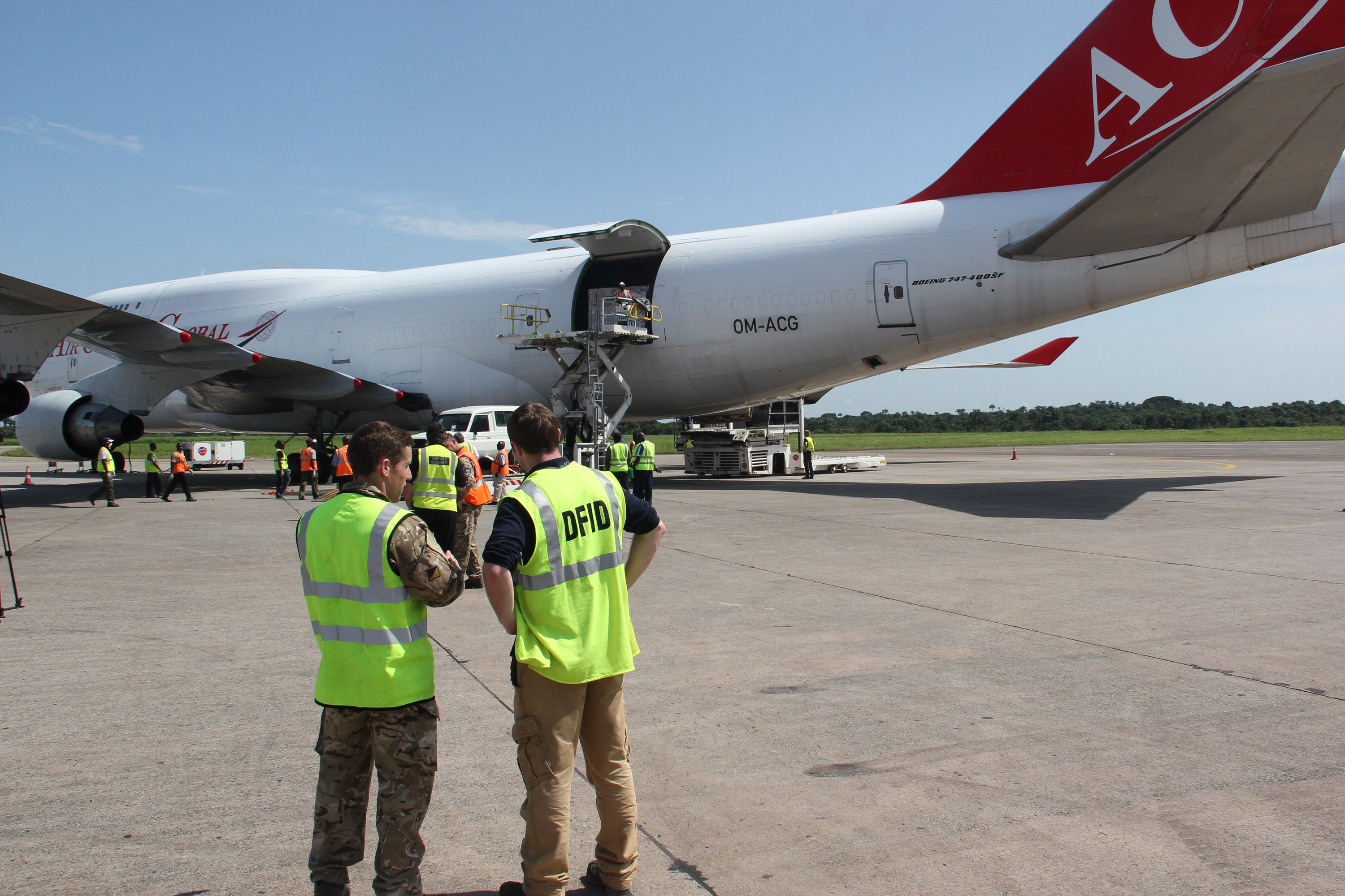 Britain's latest Ebola aid flight - delivering beds, personal protection suits, tents and ten vehicles - landed in Freetown today (Sunday 12 October 2014). For more information about the UK government's response to the Ebola crisis, please This image is available free for editorial use under the terms of the Open Government License/Creative Commons Attribution. Picture: James Fulker/DFID